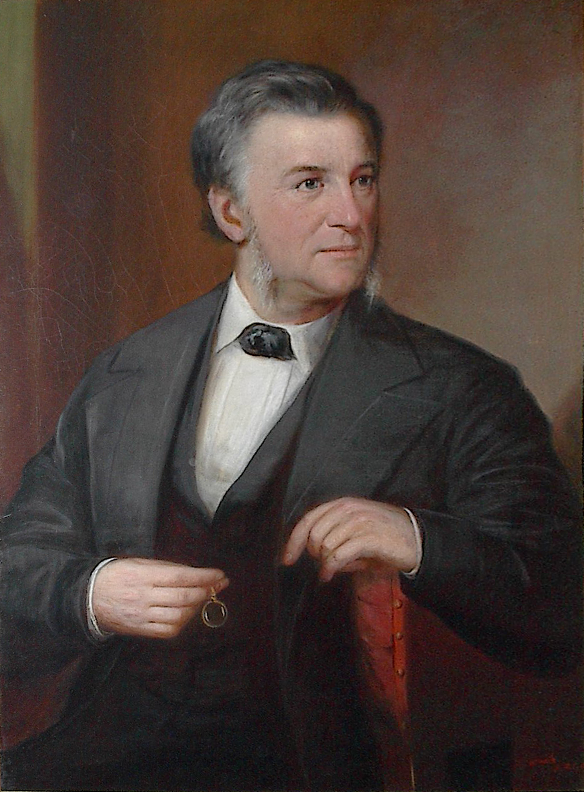 My photograph of a portrait of John Young Bown, a trained lawyer, a practising doctor, and a Member of Parliament in Canada representing Brant North as a Liberal-Conservative member in the 1st Canadian Parliament, painted in roughly 1869. Original artist unknown, the portrait is privately owned and the owner requests anonymity.